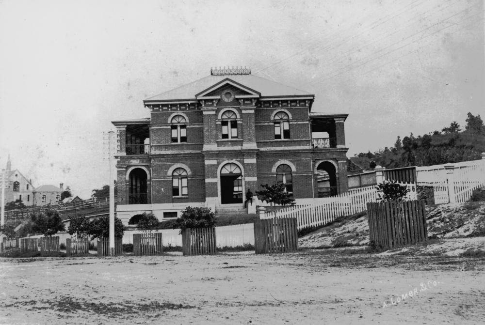 Photographer: unidentified Location: Brisbane Description: Photograph from Roma Street of the facade of police barracks erected 1879-1880. 'This building provides barrack accommodation for about forty-five men and room for officer-in-charge. The lower floor contains cells to provide for the use of the station, if needful, as a lockup.' The barracks closed as a police station in 1967 and were demolished to make way for the Roma Street park area and Turbot Street flyover across Roma Street. (Information taken from Queensland Legislative Assembly, Votes and Proceedings 1880, Vol II p.1007) View this page at the State Library of Queensland Information about State Library of Queensland’s collection